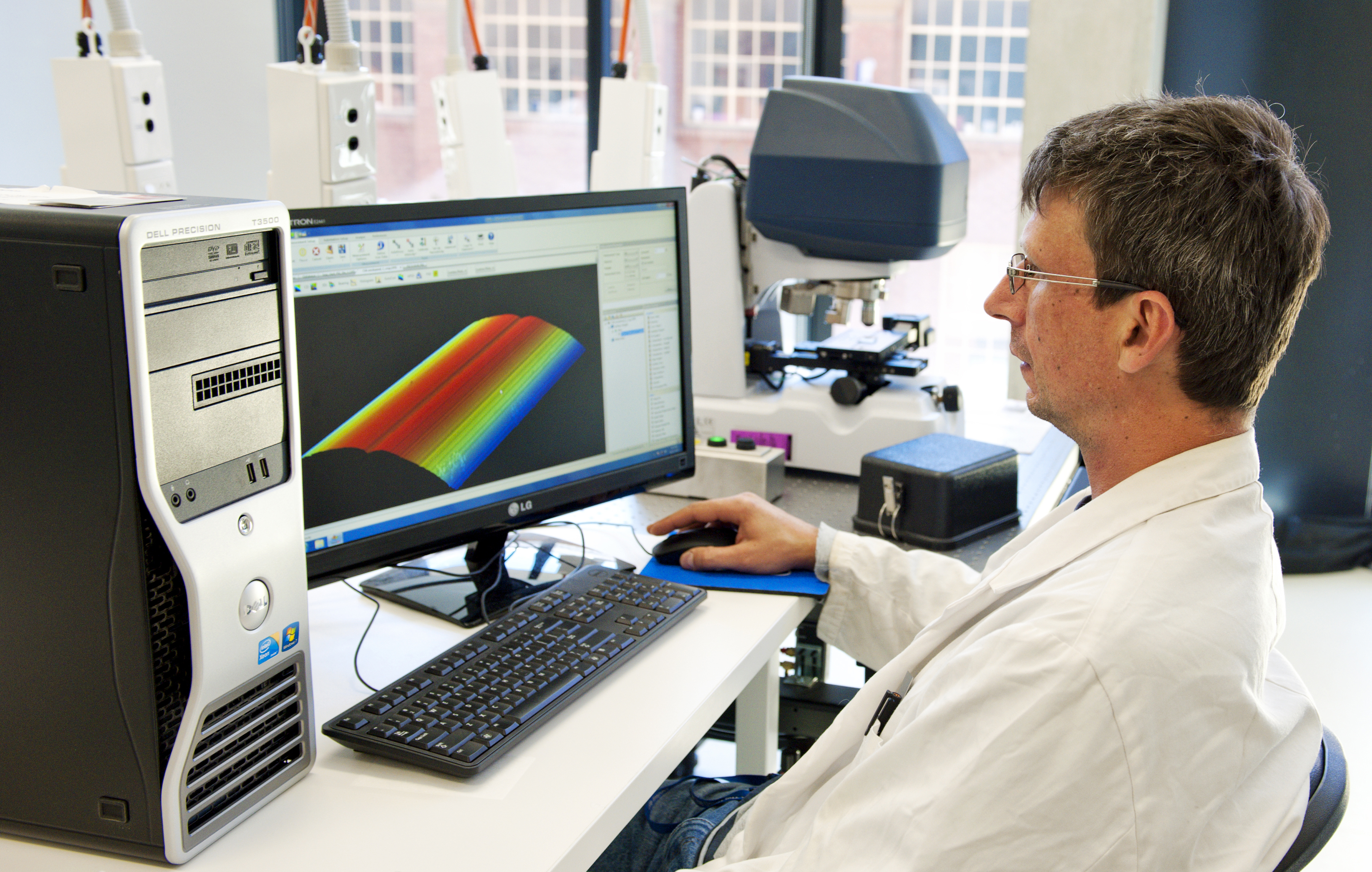 Dell Precision T3500 workstation being used for research at the Institute for Phototonics and Advanced Sensing (IPAS). The photo subject is IPAS Researcher Roman Kostecki, who is visualizing output from a mathematical model.